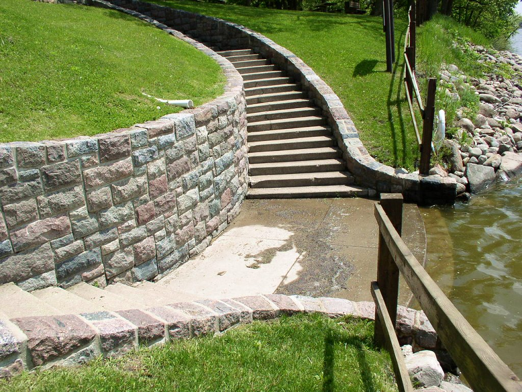 Swimming area and double staircase built by the Works Progress Administration 1939–1940, Lake Shetek State Park, Minnesota, USA